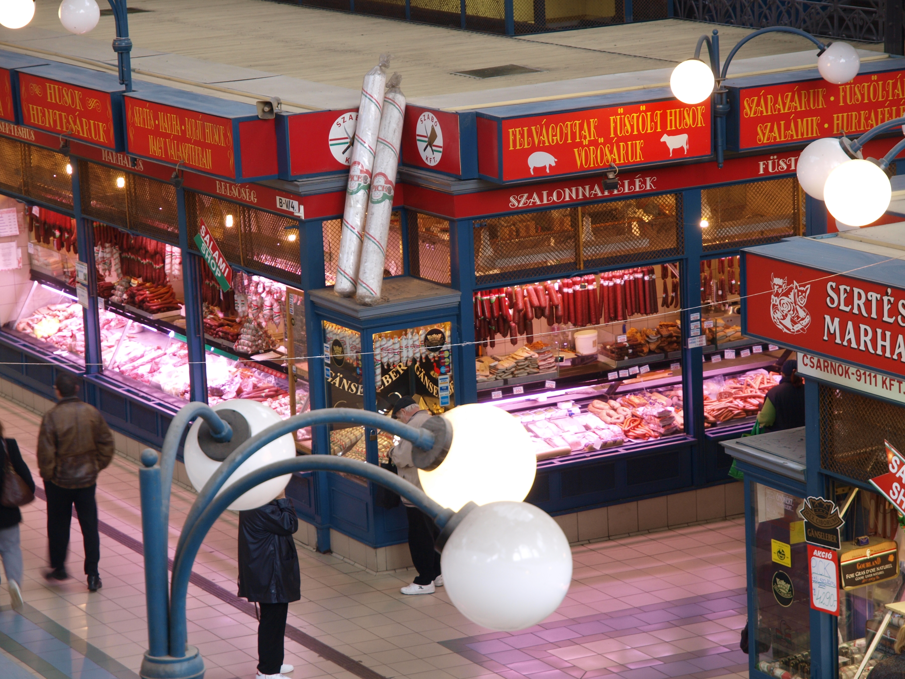 Pick salami shop in the great market hall in Budapest